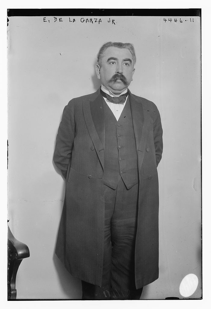 Emeterio de la Garza, Jr. in 1918